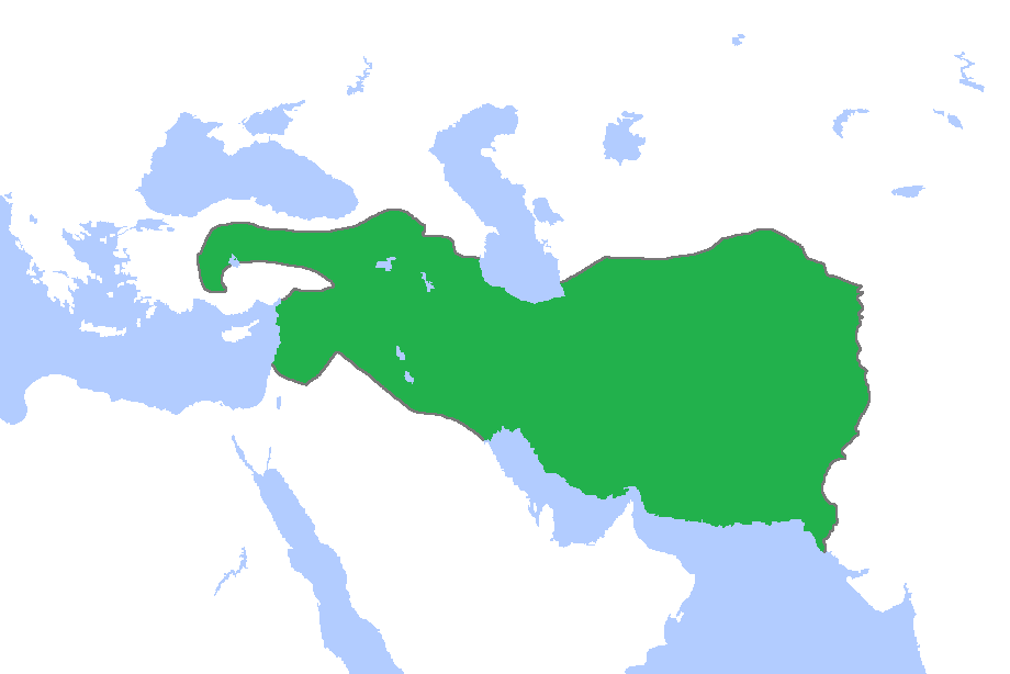 Locator map of the Seleucid Empire (dark green), with its areas of influence (light green), c. 301 BC. (Partially based on Atlas of World History (2007) - Greek and Roman Expansion, map)